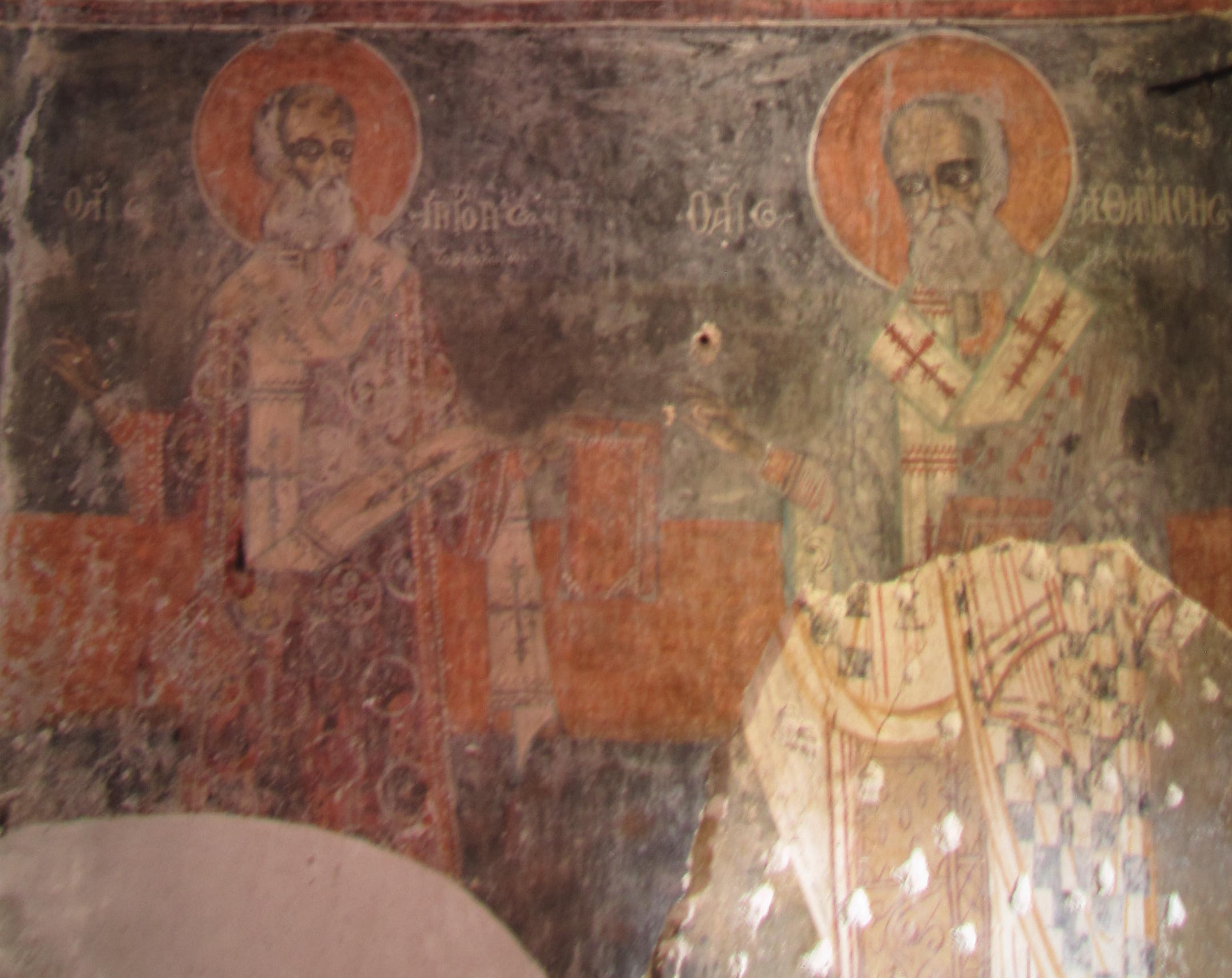 Agia Triada, Vrondou, Frescoes, different layers